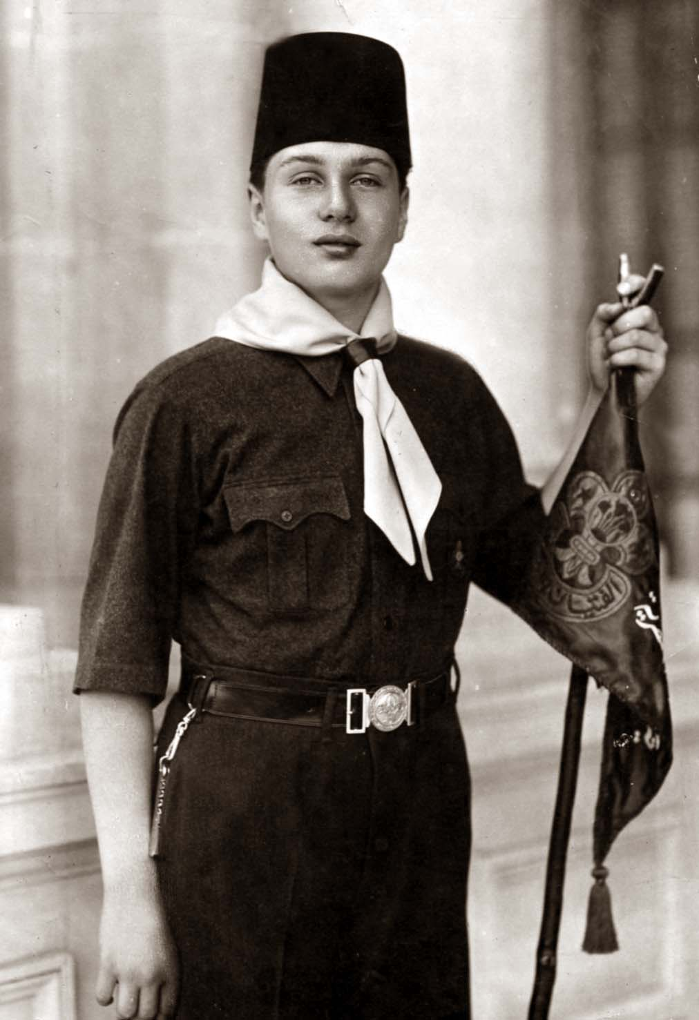 Prince Farouk, heir to the Egyptian throne, wearing the Scout uniform.